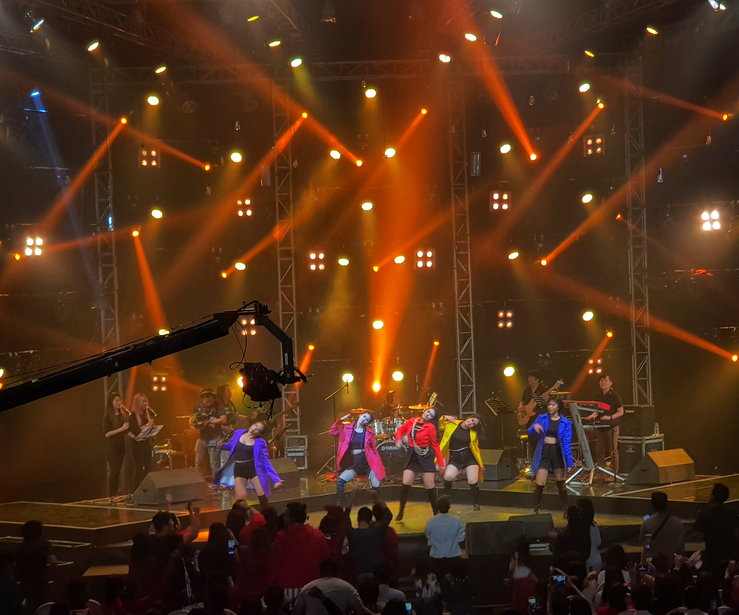 Ni Ni Khin Zaw in a mini Concert